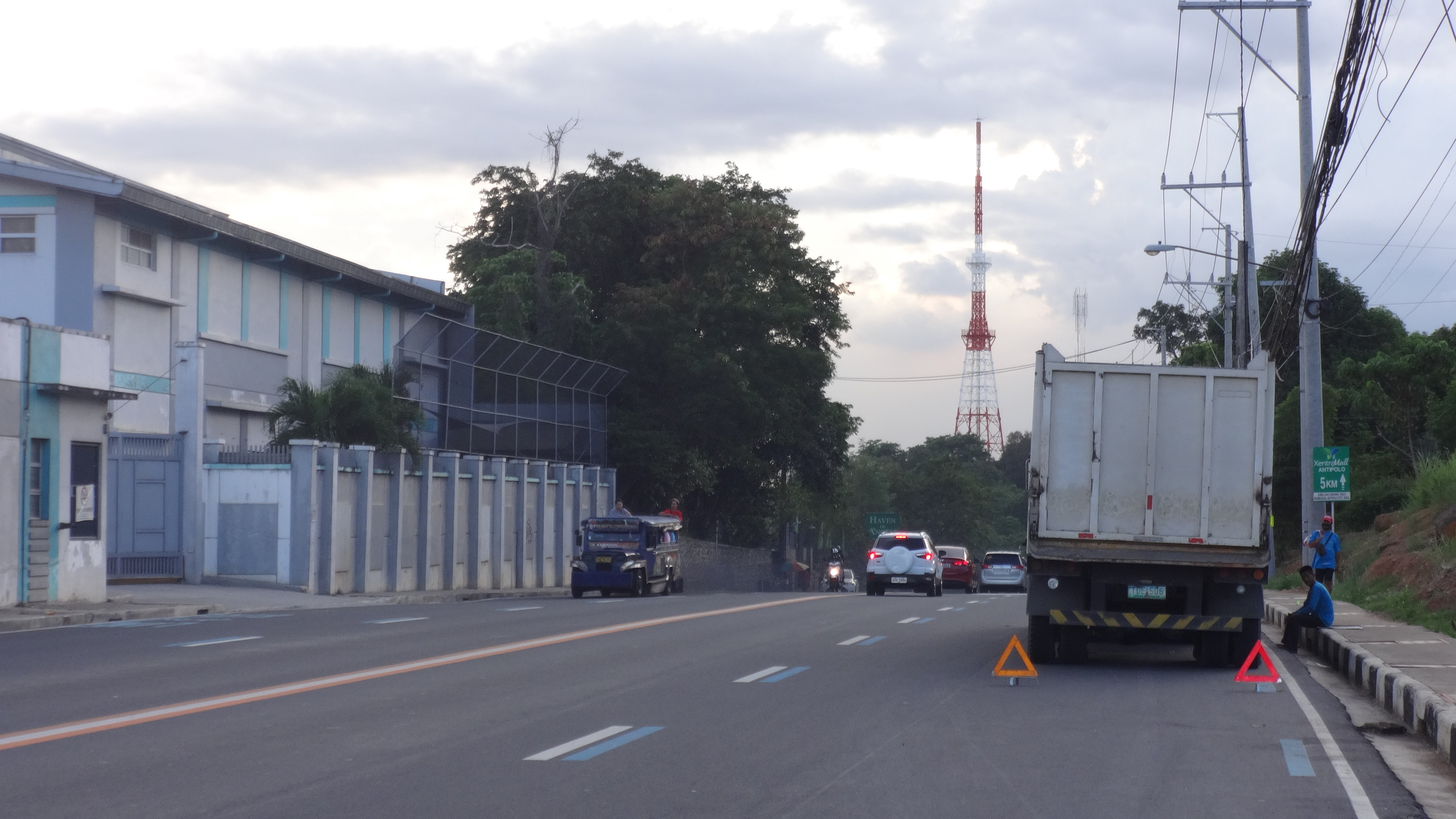 Sumulong Highway (with UNTV transmitter) in Santa Cruz, Antipolo, Rizal